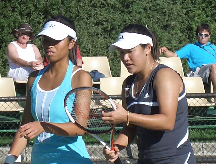 Suwei Hsieh （traditional characters: 謝淑薇 pinyin:xie4 shu1wei2）of Taiwan (left) and Tamarine Tanasugarn of Thailand (right) in their first round match of the 2006 Australian Open (women's doubles). They played Marta Domachowska (Poland)/Roberta Vinci (Italy). Hsieh and Tanasugarn won.